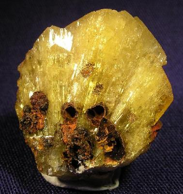 Adamite Locality: Ojuela Mine, Mapimí, Municipio de Mapimí, Durango, Mexico (Locality at ) Size: thumbnail, 2.2 x 2 x 1.2 cm Adamite Splendid fan of thick, intergrown Adamite crystals from the world�s premier locality for the species. Both the yellow color and the glassy luster are first-rate, as are the terminations. The contact points and bit of attached matrix on the back only add to the visual appeal, bringing a bit of color and contrast. An excellent specimen.